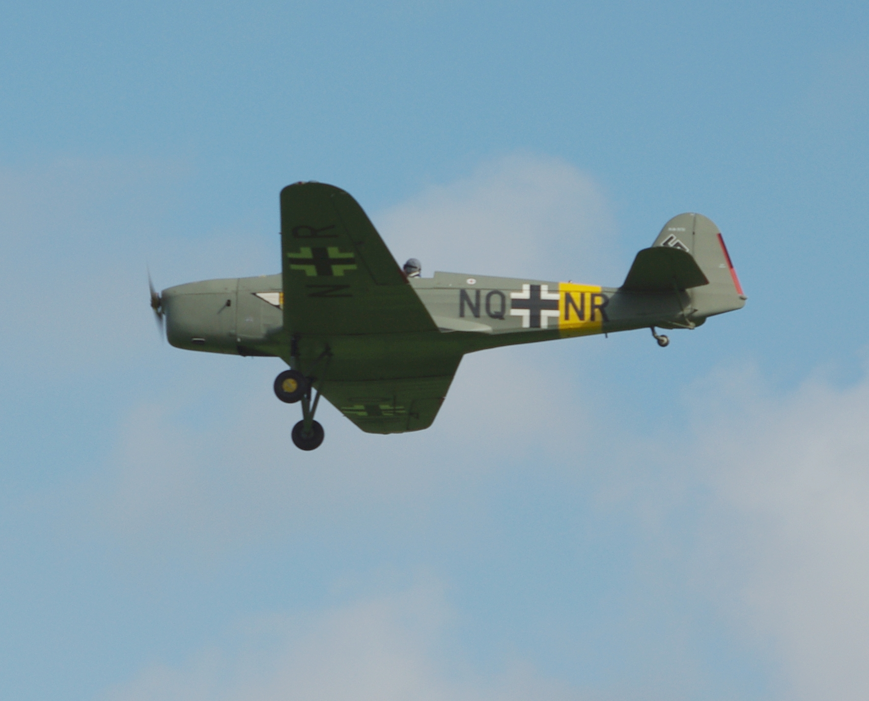 Klemm Kl.35D G-KLEM at Old Warden, 7 September 2008